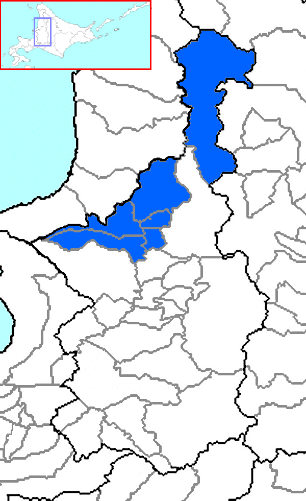 The location of Uryu District in Sorachi Subprefecture, Hokkaido Prefecture, Japan.